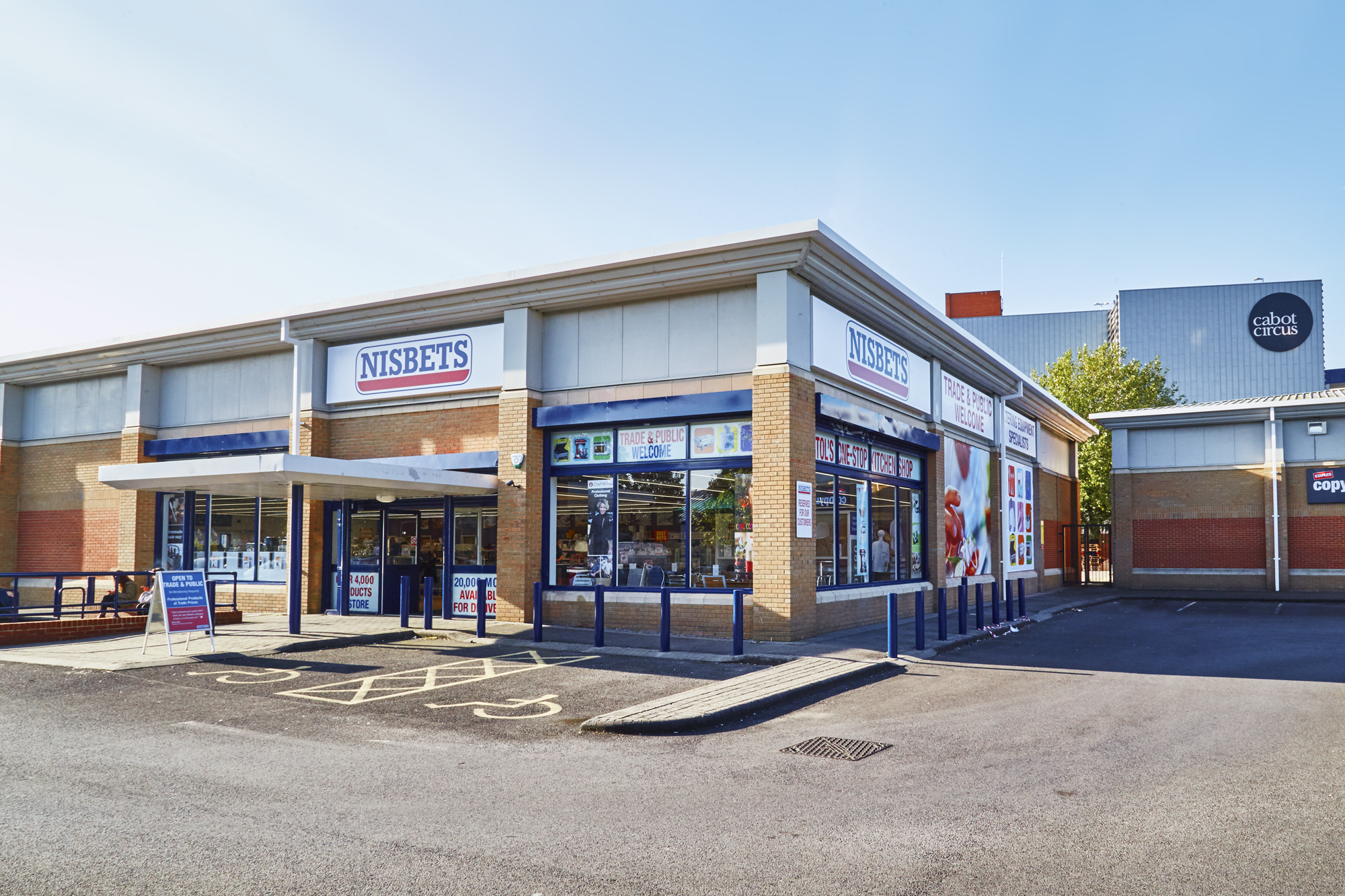 Nisbets Flagship Store in Bristol City Centre